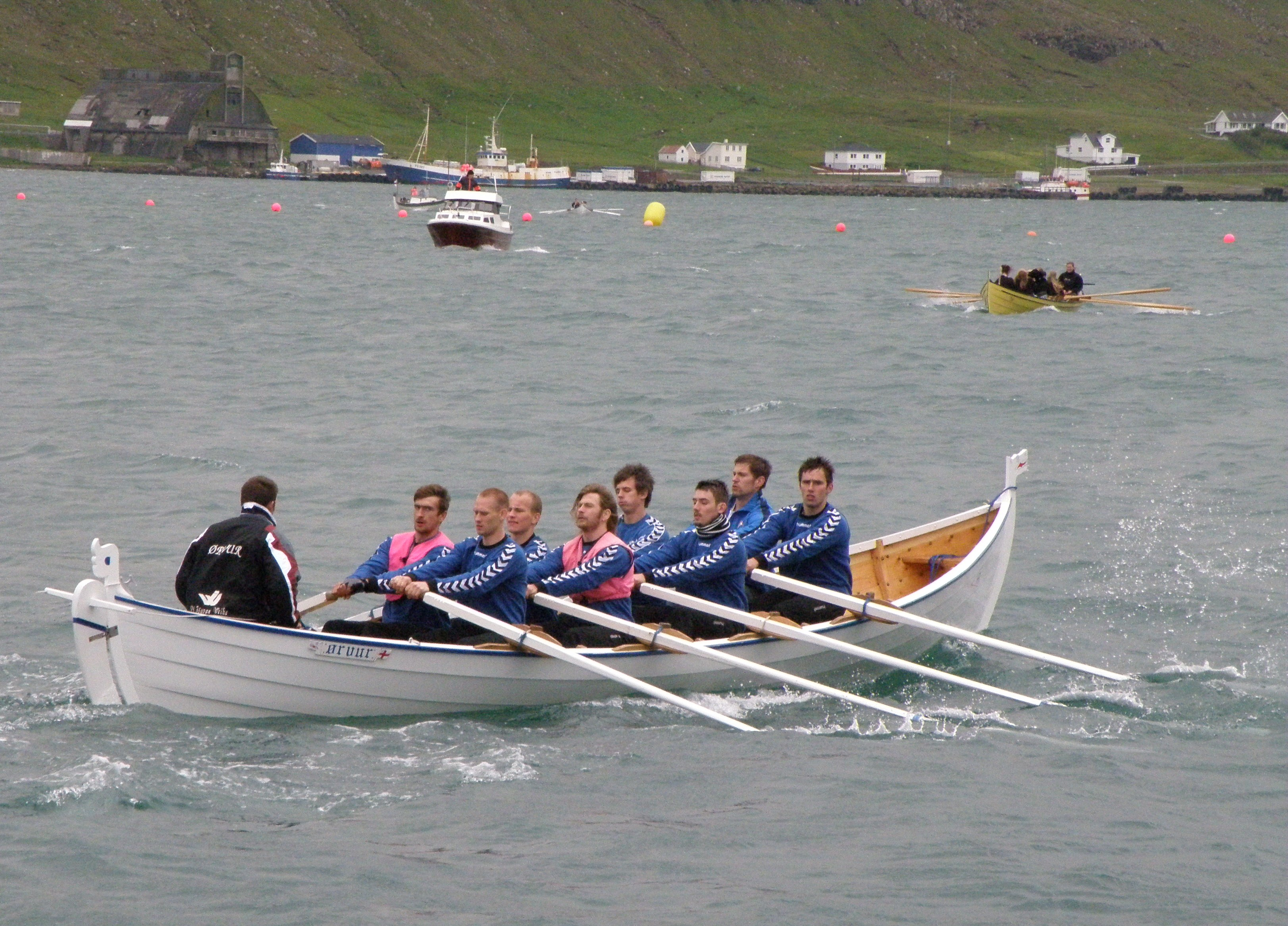 Ørvur is a wooden Faroese rowboat from Tórshavn, it is a so-called 8-mannafar, for eight rowers and one person to steer the boat. This photo was taken just before the race of Joansoka in Tvøroyri. Here they are warming up. They became number two in this race. Føroyskt: Ørvur er áttamannafar, sum Havnar Róðrarfelag eigur. Henda myndin varð tikin á Jóansøku á Tvøroyri 25. juni 2011. Ørvur er á veg inneftir fjørðinum her, men tað er bert talan um upphiting, løtu seinni fóru teir út til startin, og í kappróðrinum hjá 8-mannaførum vunnu teir silvur.